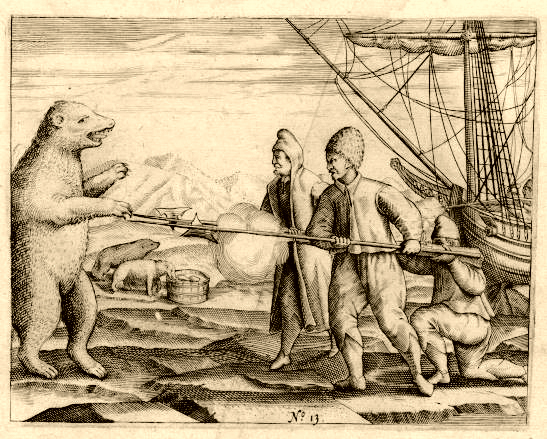 A Polar bear approaches the men of Willem Barentsz.